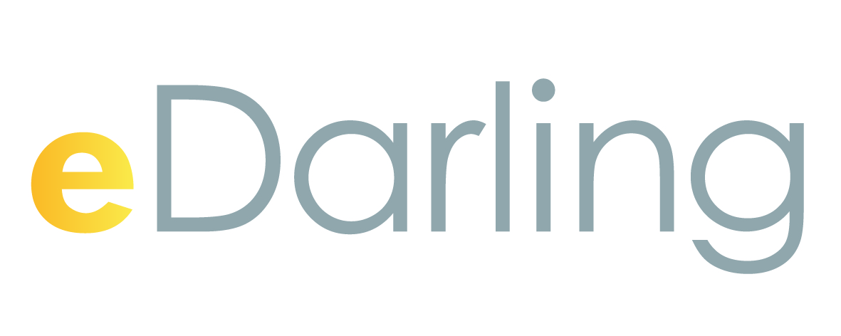 One of the logos used by eDarling